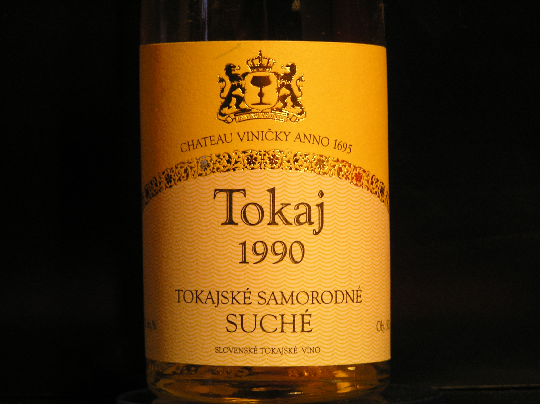 Bottle of Tokaj "samorodne" dry wine. author Legnaw